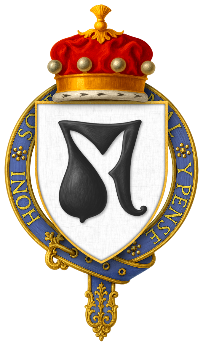 Sir William Hastings, 1st Baron Hastings, KG HOPE, W. H. St. John, The Stall Plates of the Knights of the Order of the Garter 1348 – 1485: A Series of Ninety Full-Sized Coloured Facsimiles with Descriptive Notes and Historical Introductions, Westminster: Archibald Constable and Company LTD, 1901. “ Plate LXVII - Sir William Hastings, Lord Hastings of Hastings, K.G. 1462-1483…the arms, silver a maunch sable... ” Lord Hasting's stall plate remains intact within the tenth stall, on the north side of the chapel.